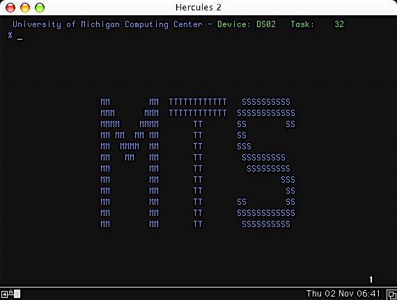 Signon screen for the Michigan Terminal System (MTS) as seen from a 3270 terminal emulator